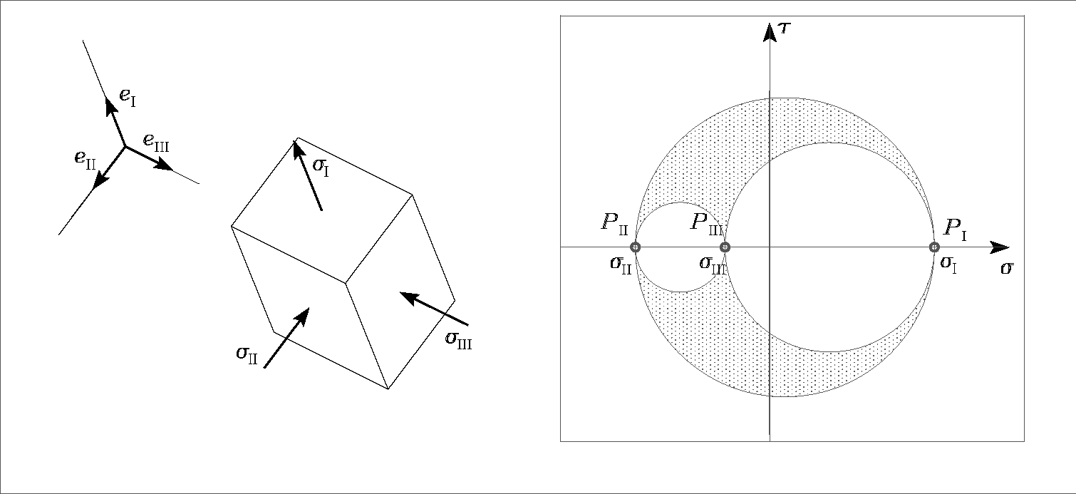 Mohr's_Circle in 3D stress state